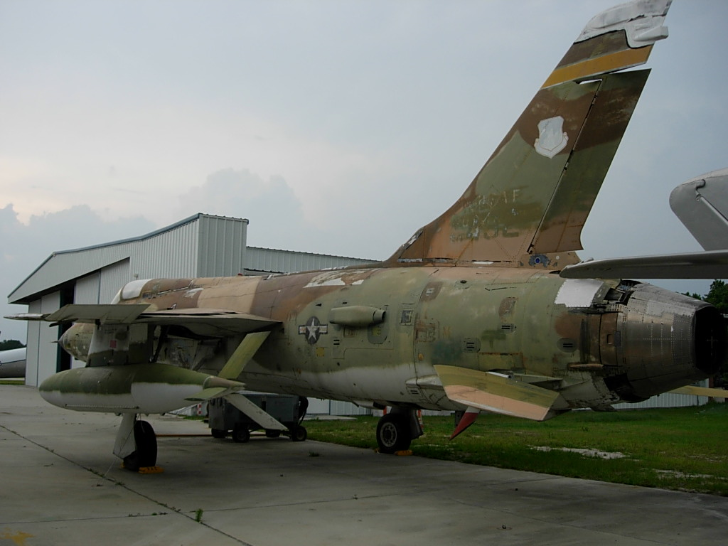 A Republic F-105D Thunderchief (s/n 60-0492, c/n D-180) at the Valiant Air Command Warbird Museum, Titusville, Florida (USA).